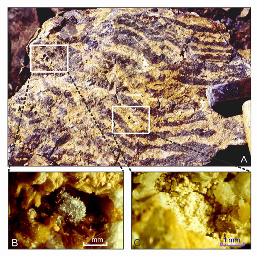 A) Zebra siderite comprises dark siderite and light sparry siderite bands. It contains cavities infilled with sparry ankerite, quartz, sulphides, represented mainly by galena and sphalerite (B) and alteration Li-phyllosilicates (C), Adamuša open-cast mine.